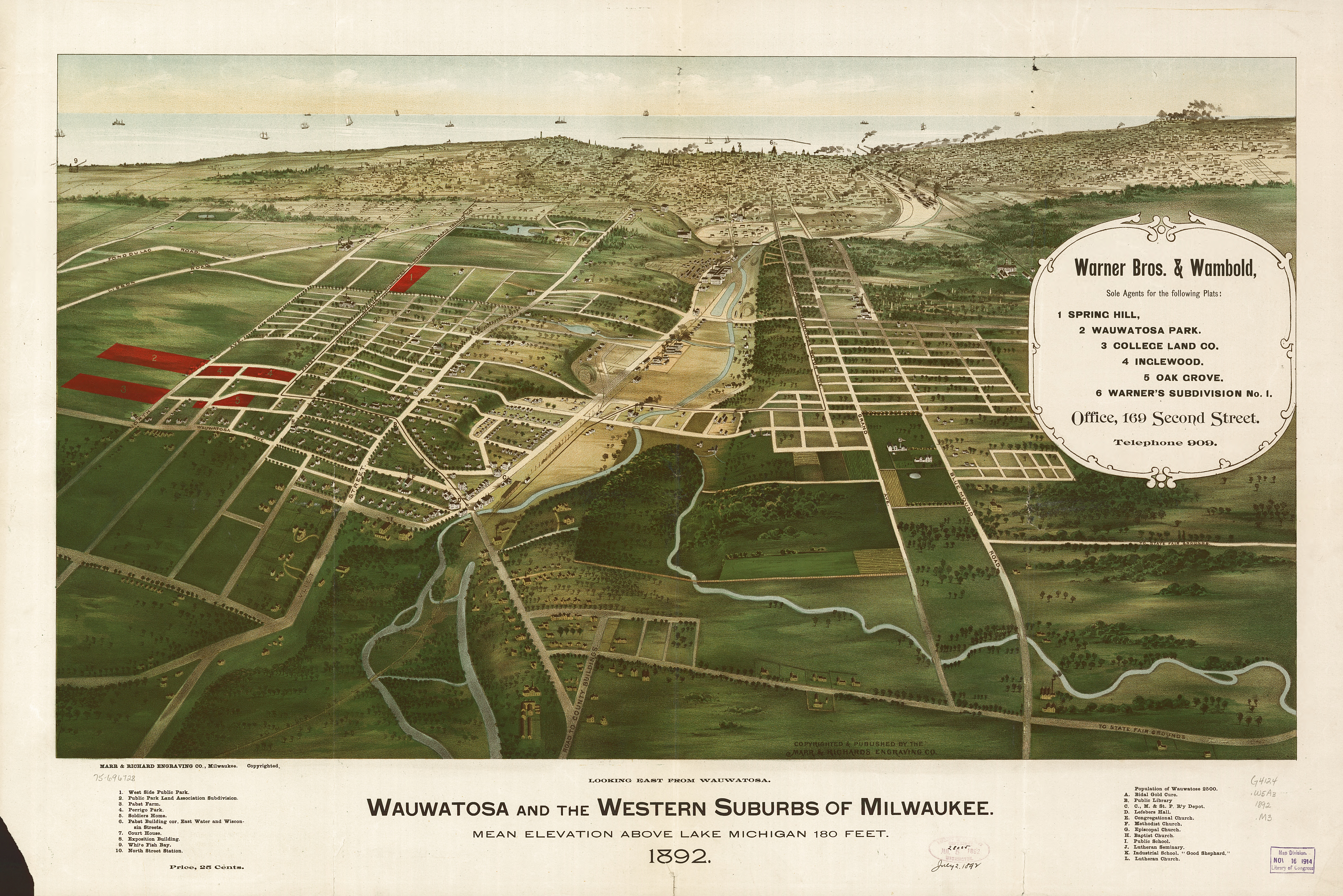 1892 aerial map of Wauwatosa, Wisconsin, looking east toward Milwaukee and Lake Michigan. The Menomonee River flows east into Lake Michigan, while Honey Creek flows north into the Menomonee. State Street runs parallel to the Menomonee River on its north bank. Wisconsin Avenue and Bluemound Road cross Honey Creek in the right foreground.